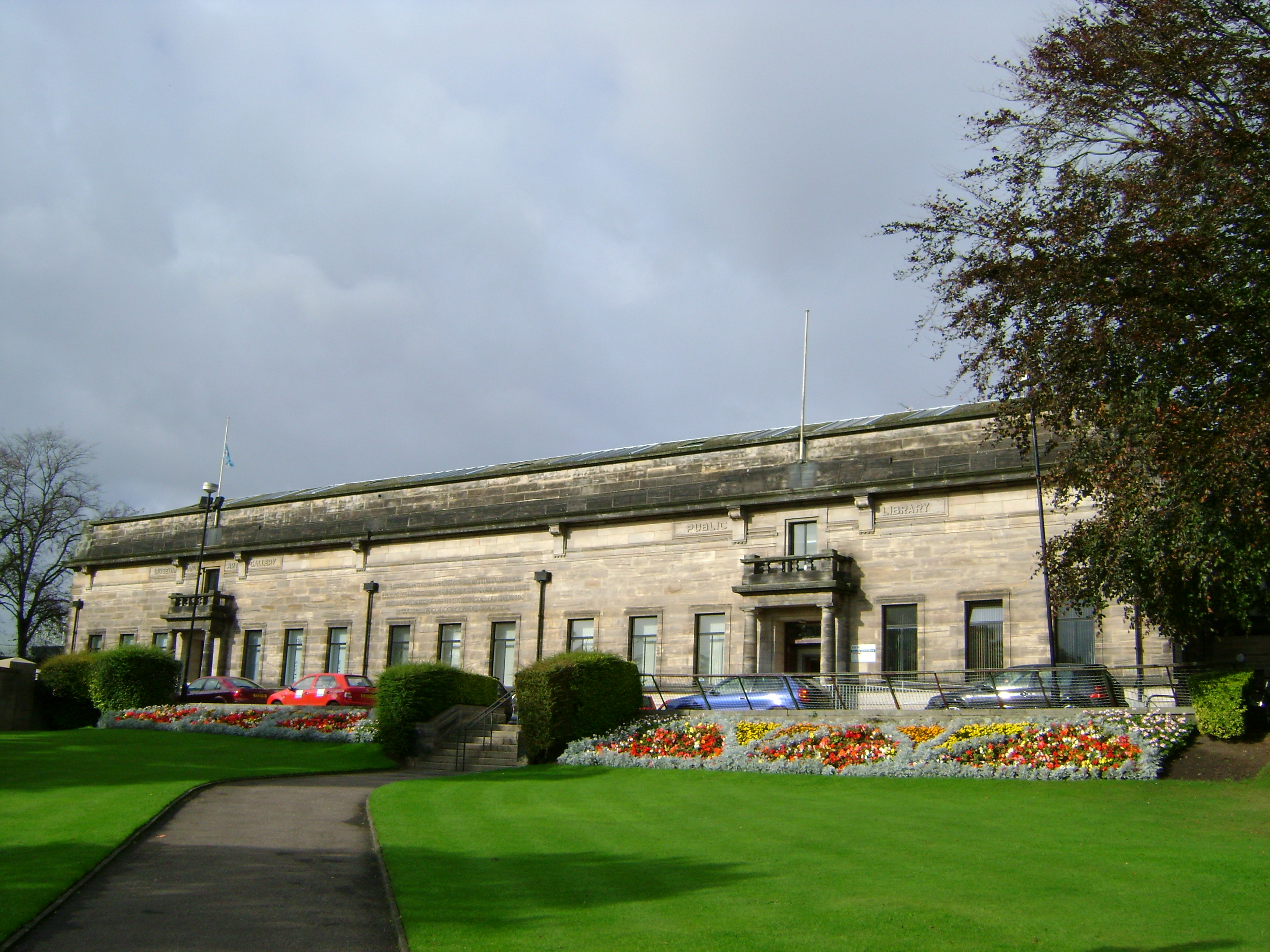 Kirkcaldy Museum and Art Gallery, War Memorial Gardens, Kirkcaldy, Fife, Scotland